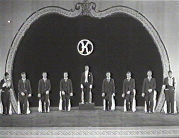 Screenshot from the 1921 Buster Keaton film The Playhouse (film)